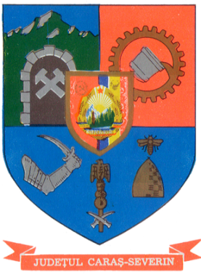 Communist coat of arms of Caraș-Severin County, Socialist Republic of Romania.